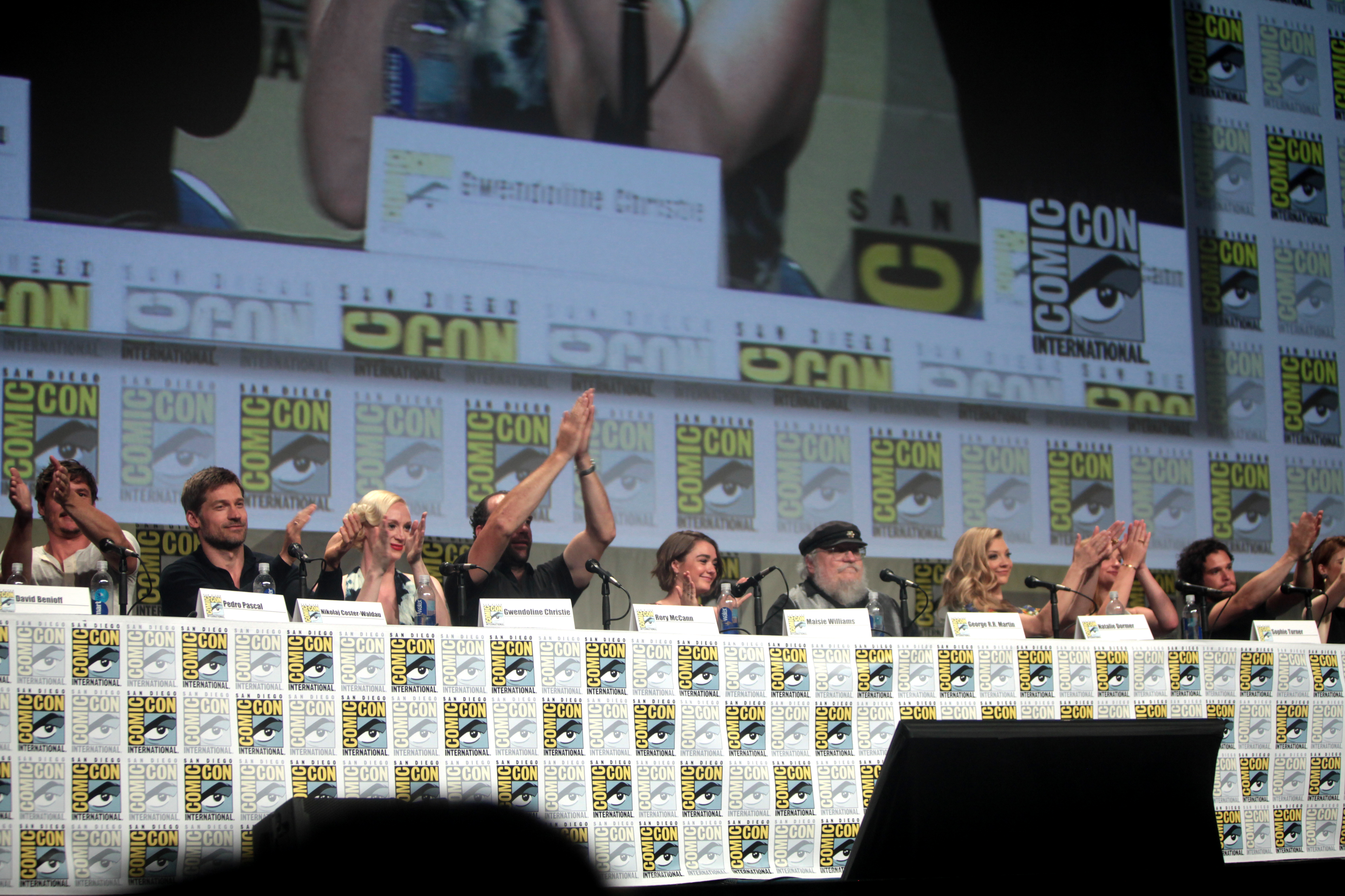 Pedro Pascal, Nikolaj Coster-Waldau, Gwendoline Christie, Rory McCann, Maisie Williams, George R. R. Martin, Natalie Dormer, Sophie Turner and Kit Harrington speaking at the 2014 San Diego Comic Con International, for "Game of Thrones", at the San Diego Convention Center in San Diego, California.